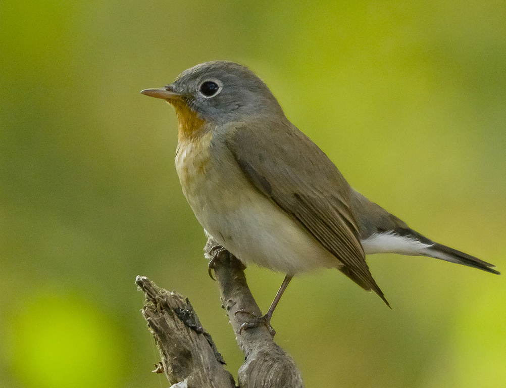 Male bird